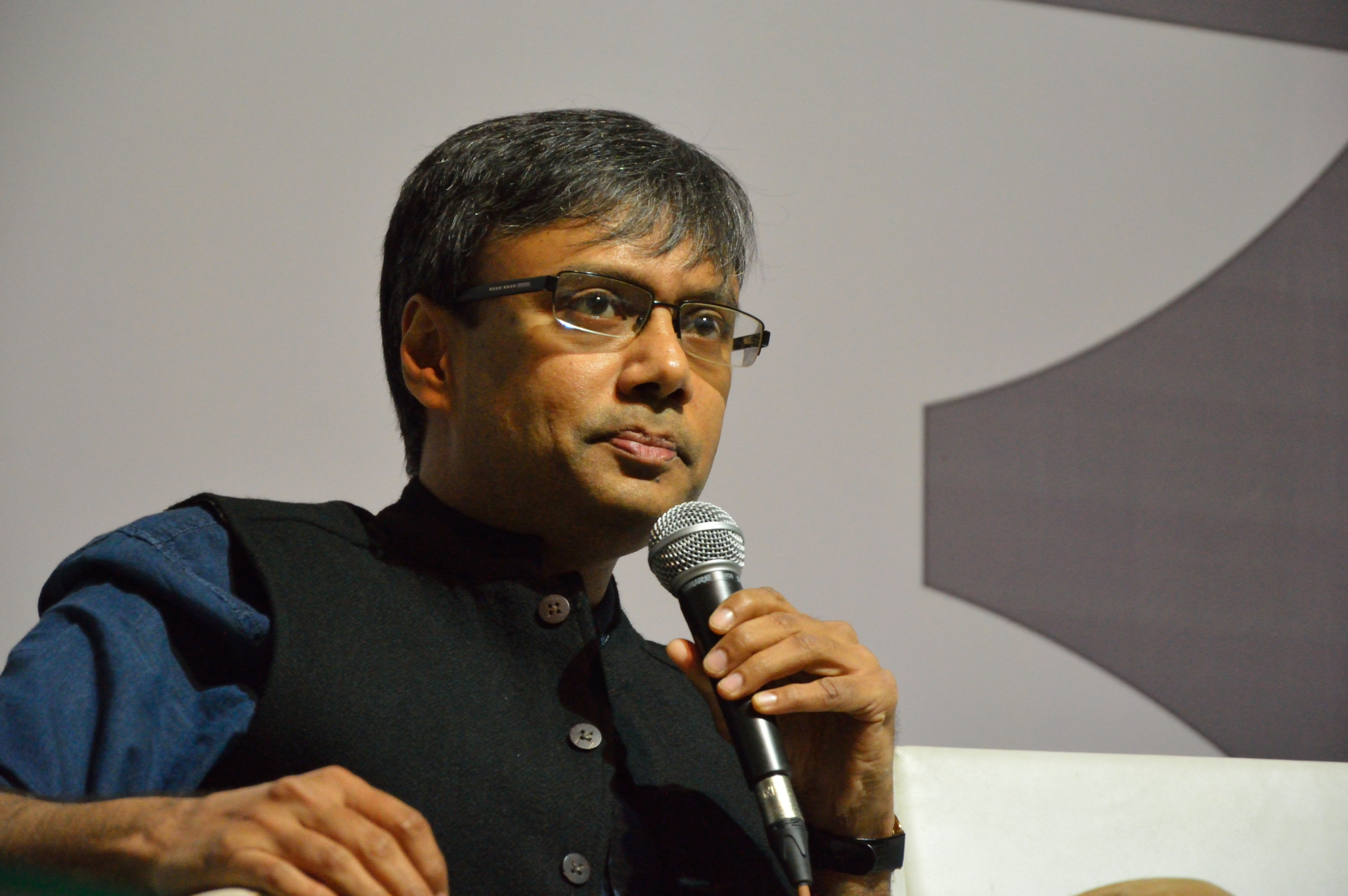 Amit Chaudhuri (born 1962 Calcutta) is an internationally recognized Indian English author and academic. Photographed durintg the 38th International Kolkata Book Fair at Milan Mela Complex , Kolkata.